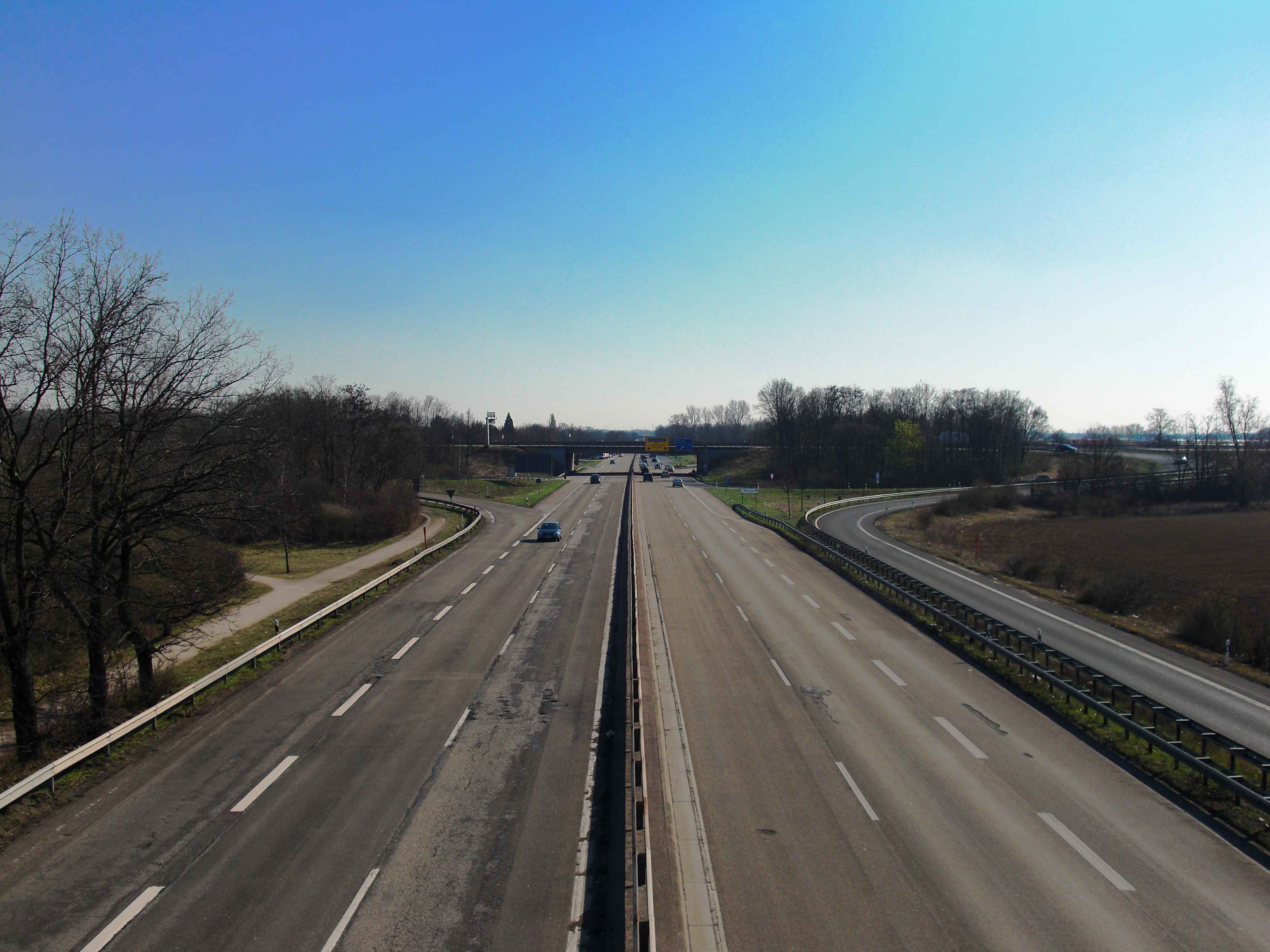 motorway interchange of the german federal road 9 and the german motorway 650 fromt the north